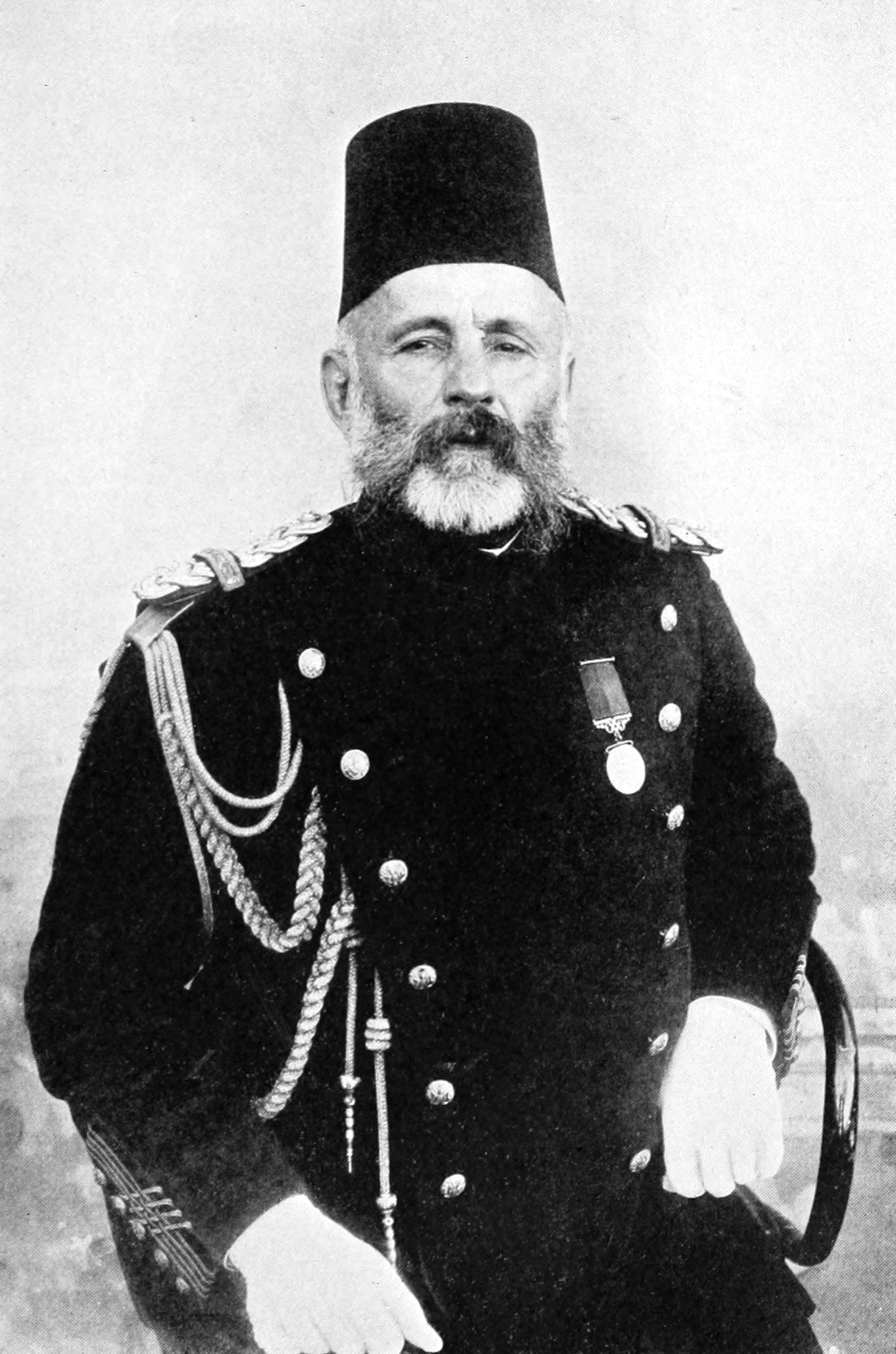 'His Excellency Redjed Pasha, former Governor of Tripoli.'